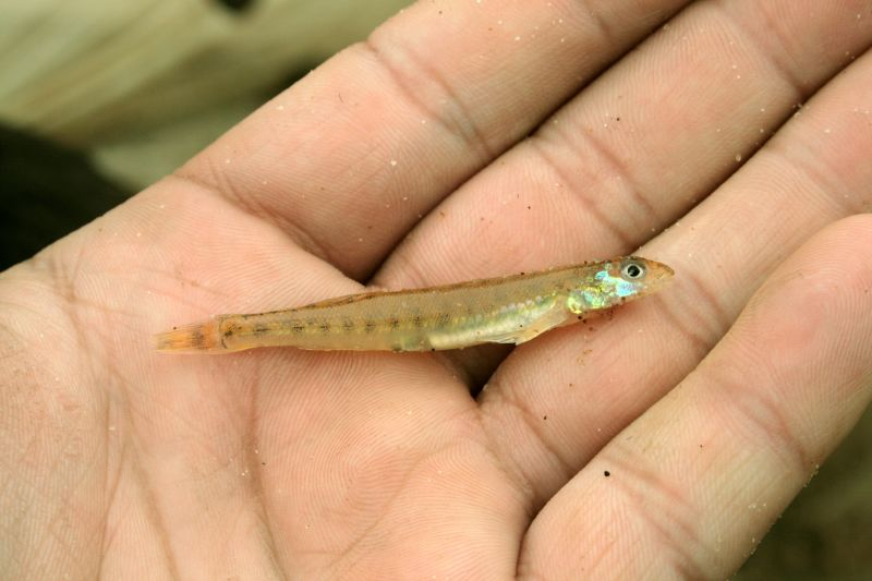 Scaly sand darter (Ammocrypta vivax), pulled from the Sabine River, Texas, United States